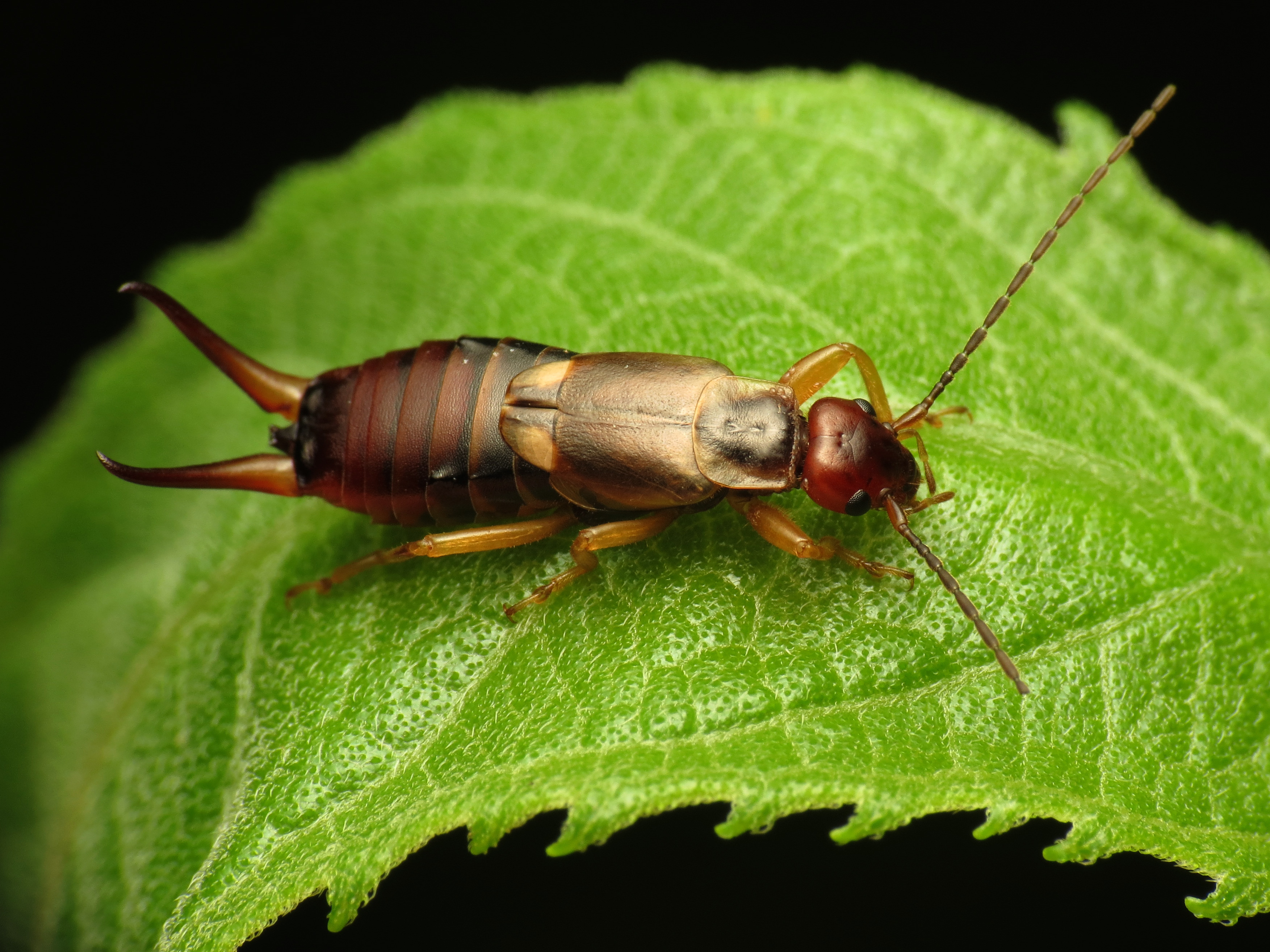 Forficula auricularia. Rock Creek Park, Washington, DC, USA.